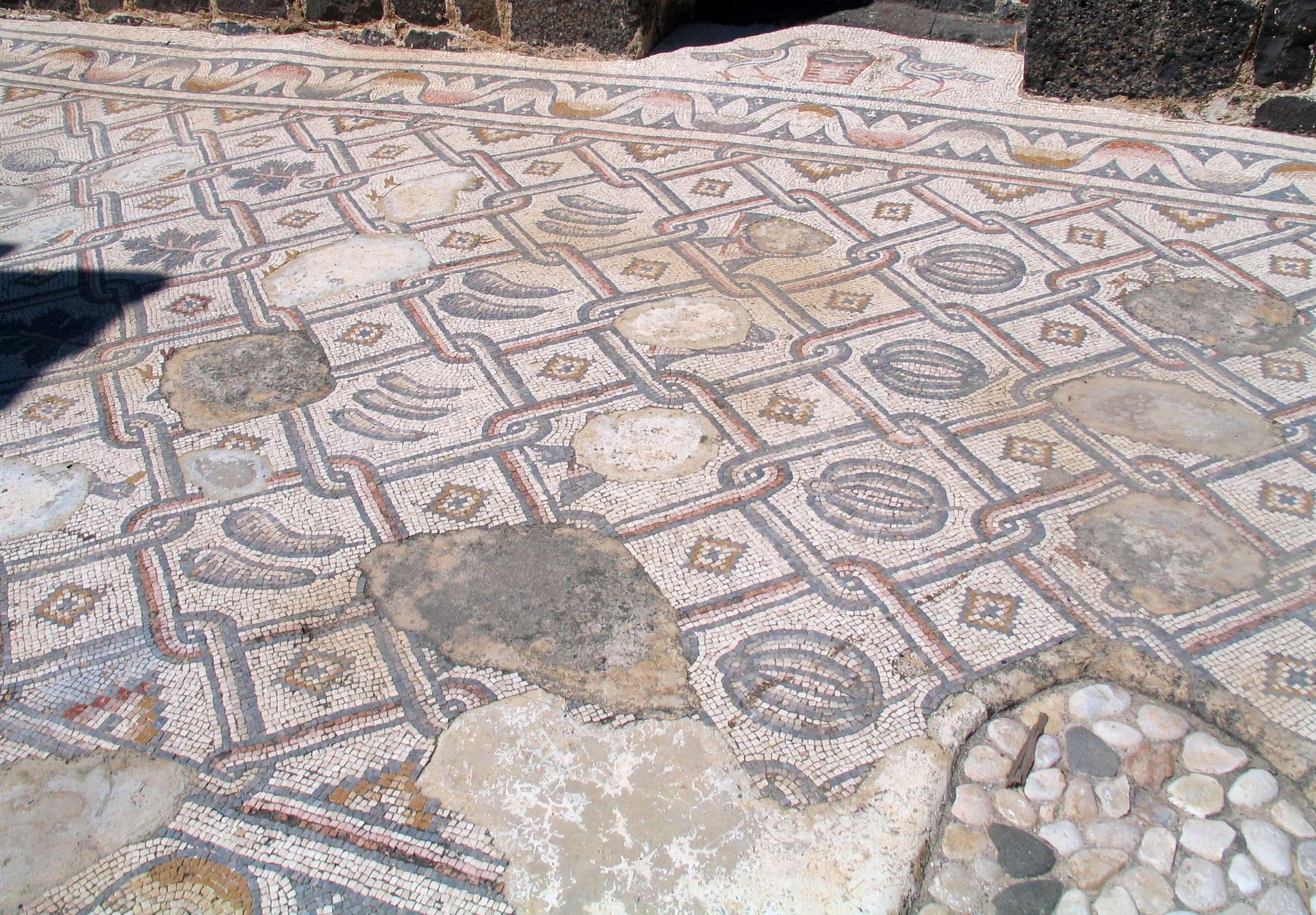 Byzantine monastery in Kursi, Israel.